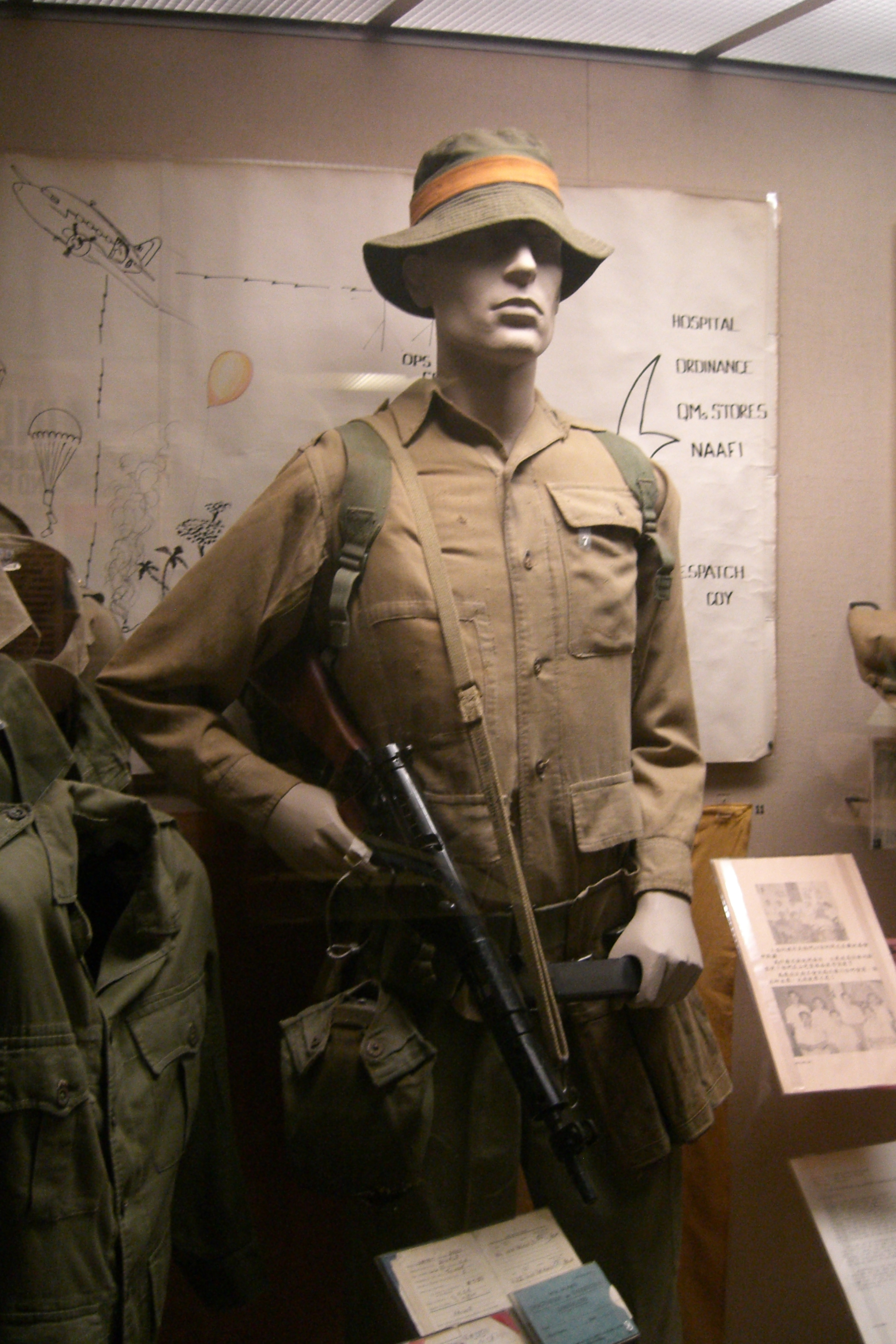 Lieutenant in jungle service dress, armed with a 9mm Sten Mark V sub machine-gun, Malaya 1953-1955. This uniform was worn by Lieutenant David McMurtrie of B Company, 1st Battalion Somerset Light Infantry (Prince Albert's), while on operations south of Kuala Lumpur from 1953 to 1955. Photo taken at the London Imperial War Museum.